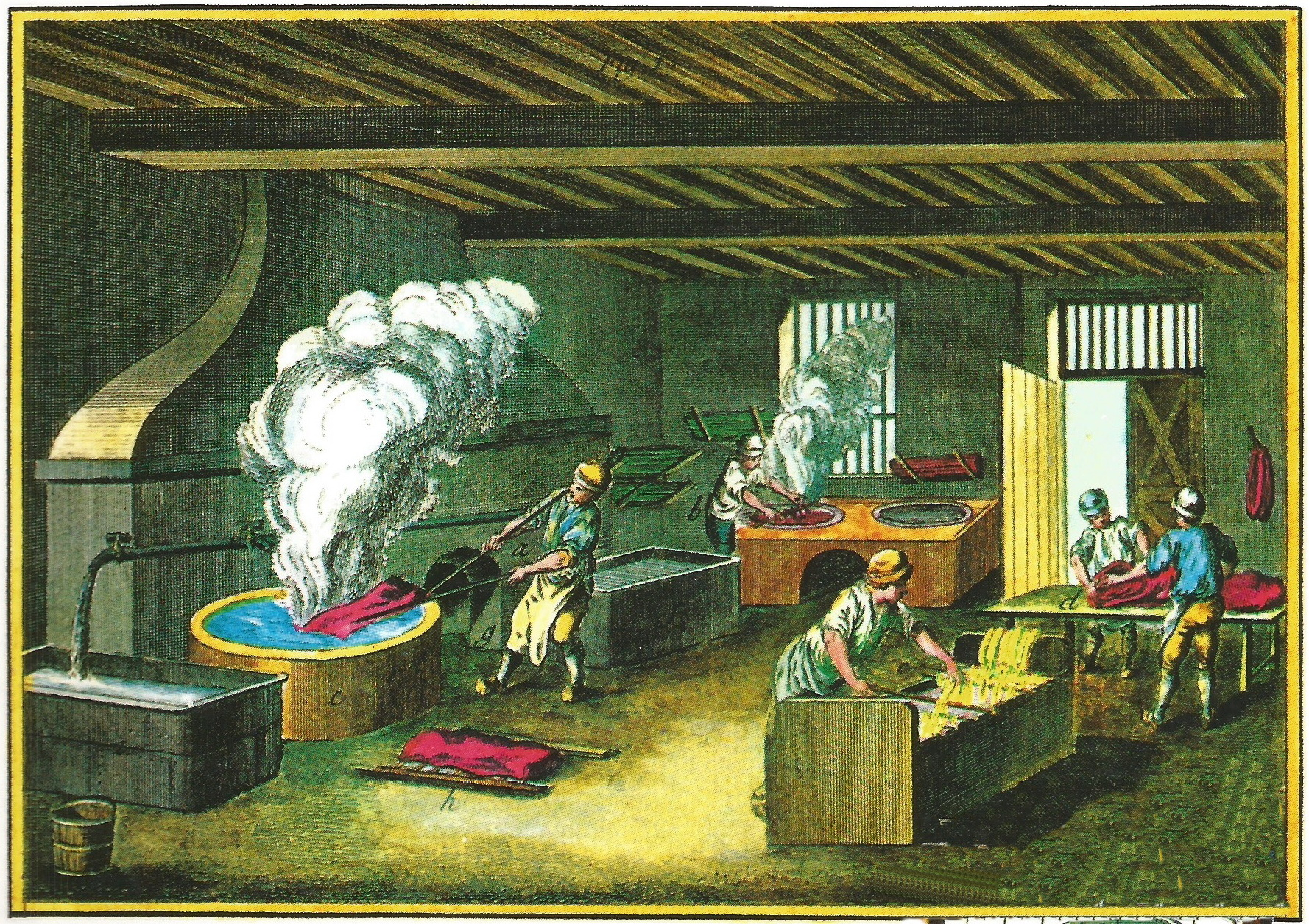 Dyehouse in the 18th century. Picture in the French Encyclopaedia